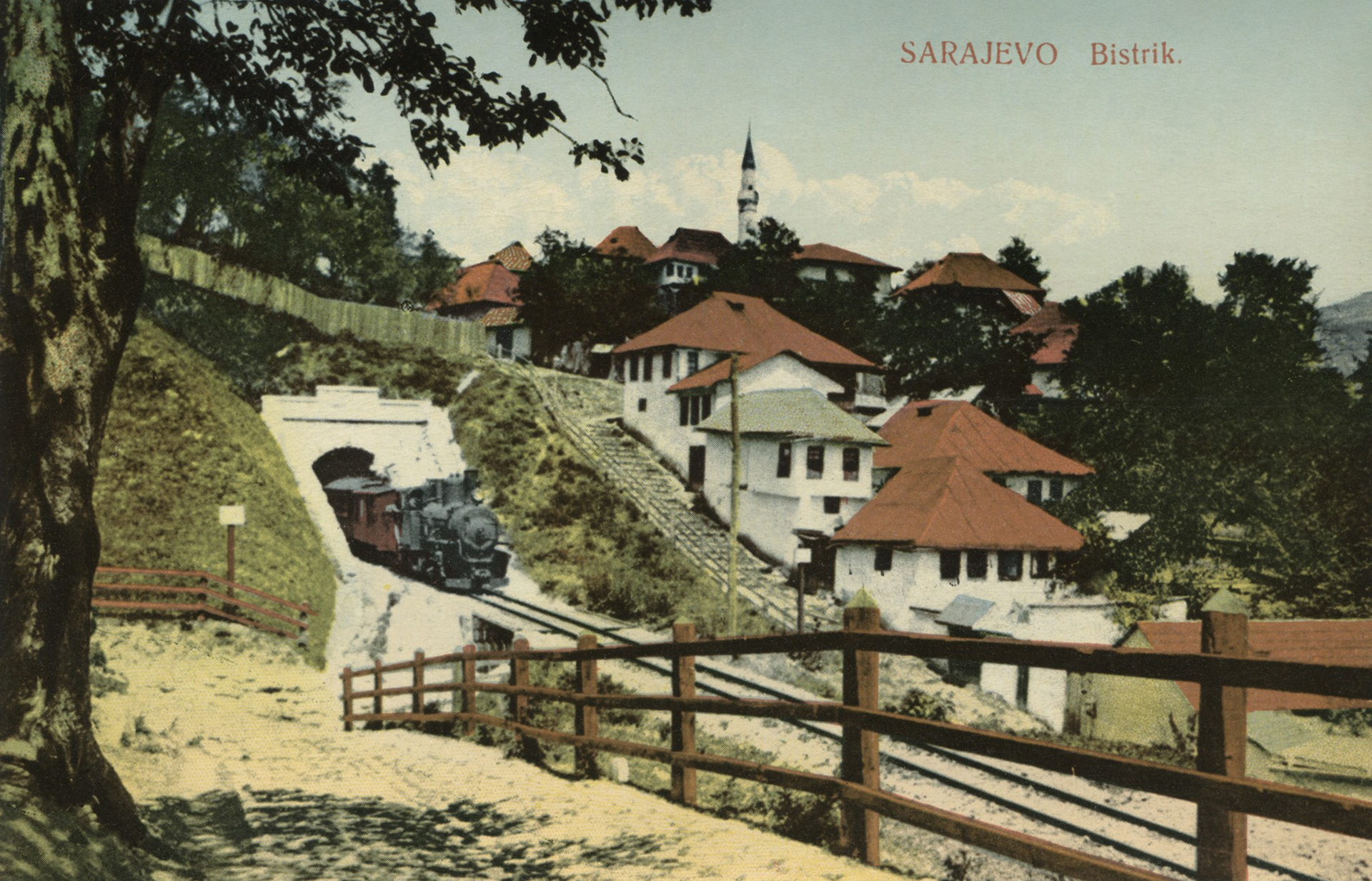 The southern portal of the tunnel No. 1 on the railway line Sarajevo (- Vardište) - Uvac